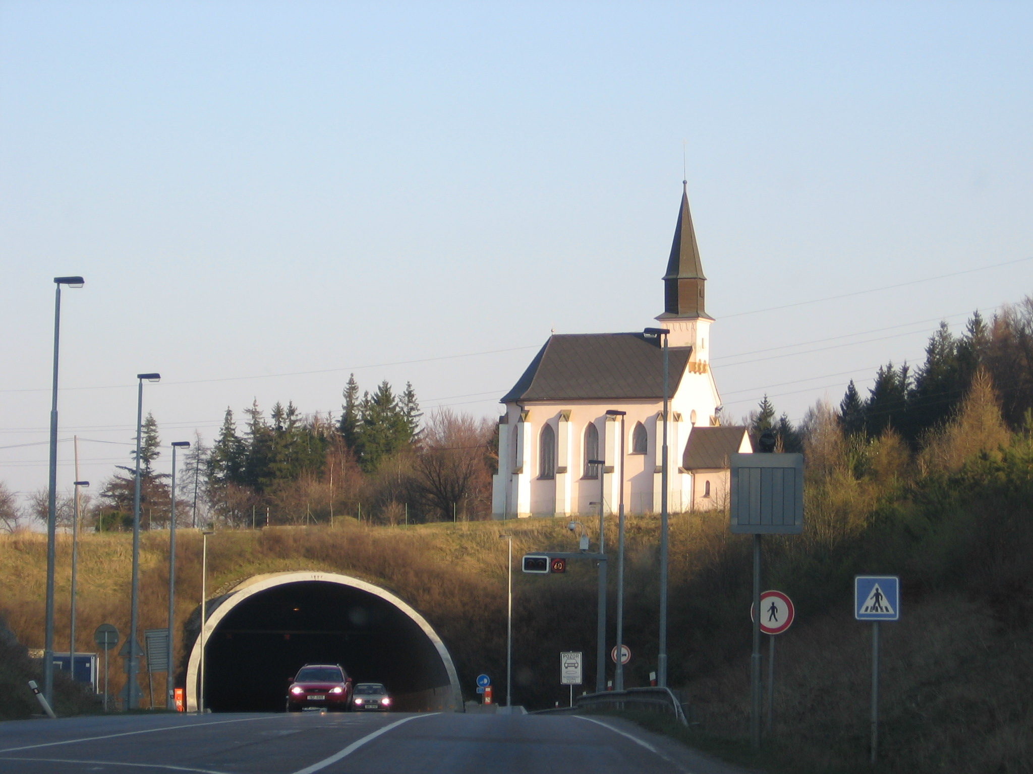 Tunnel Hřebeč and the Chapel of St Joseph near Koclířov (Svitavy District, (Pardubice Region, Czech Republic)